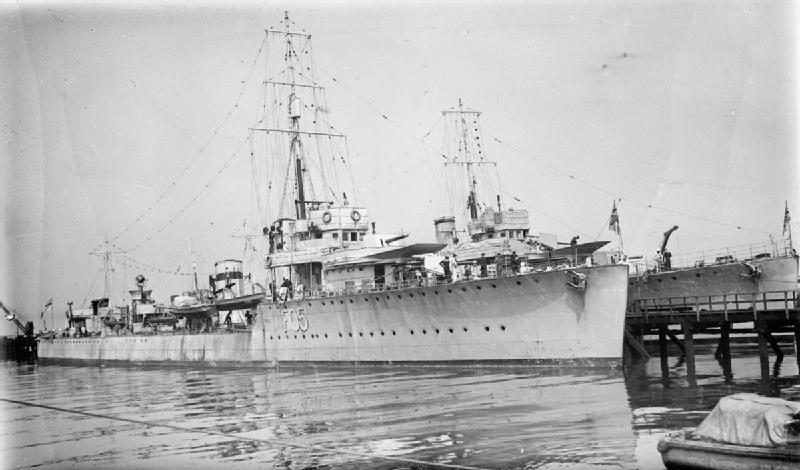 Photograph of British destroyer HMS Valkyrie.